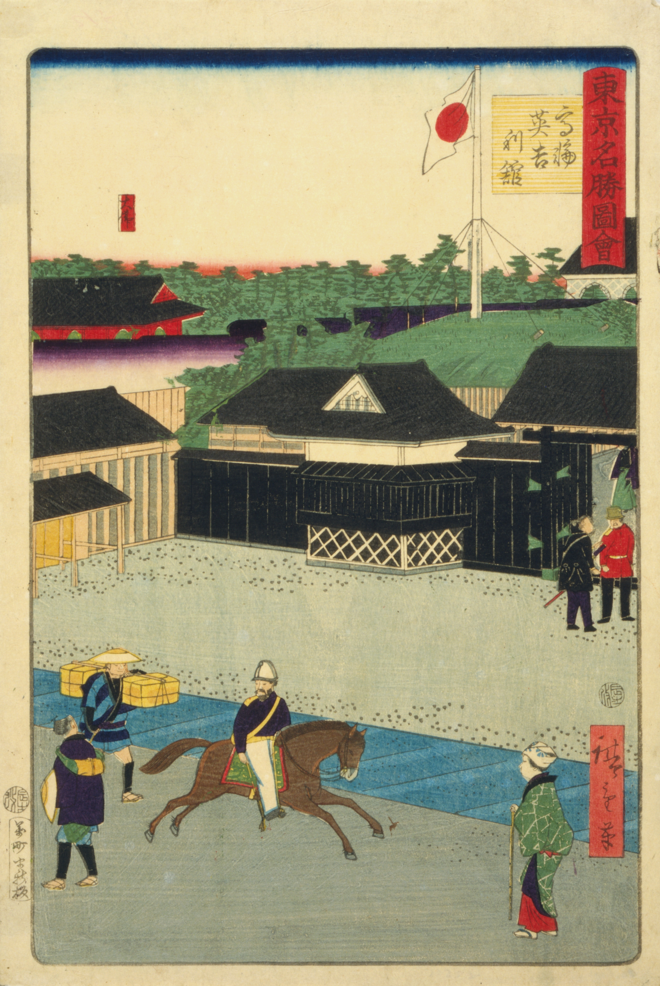 Takanawa Igirisu kan (Japanese: 高輪英吉利館, "British house in Takanawa"). Print shows buildings with people walking and a man riding horseback on the street in the foreground; a Japanese flag flying in the background. Medium: 1 print on hōsho paper : woodcut, color ; 34 x 22.5 cm. (block), 36.5 x 24.5 cm. (sheet)